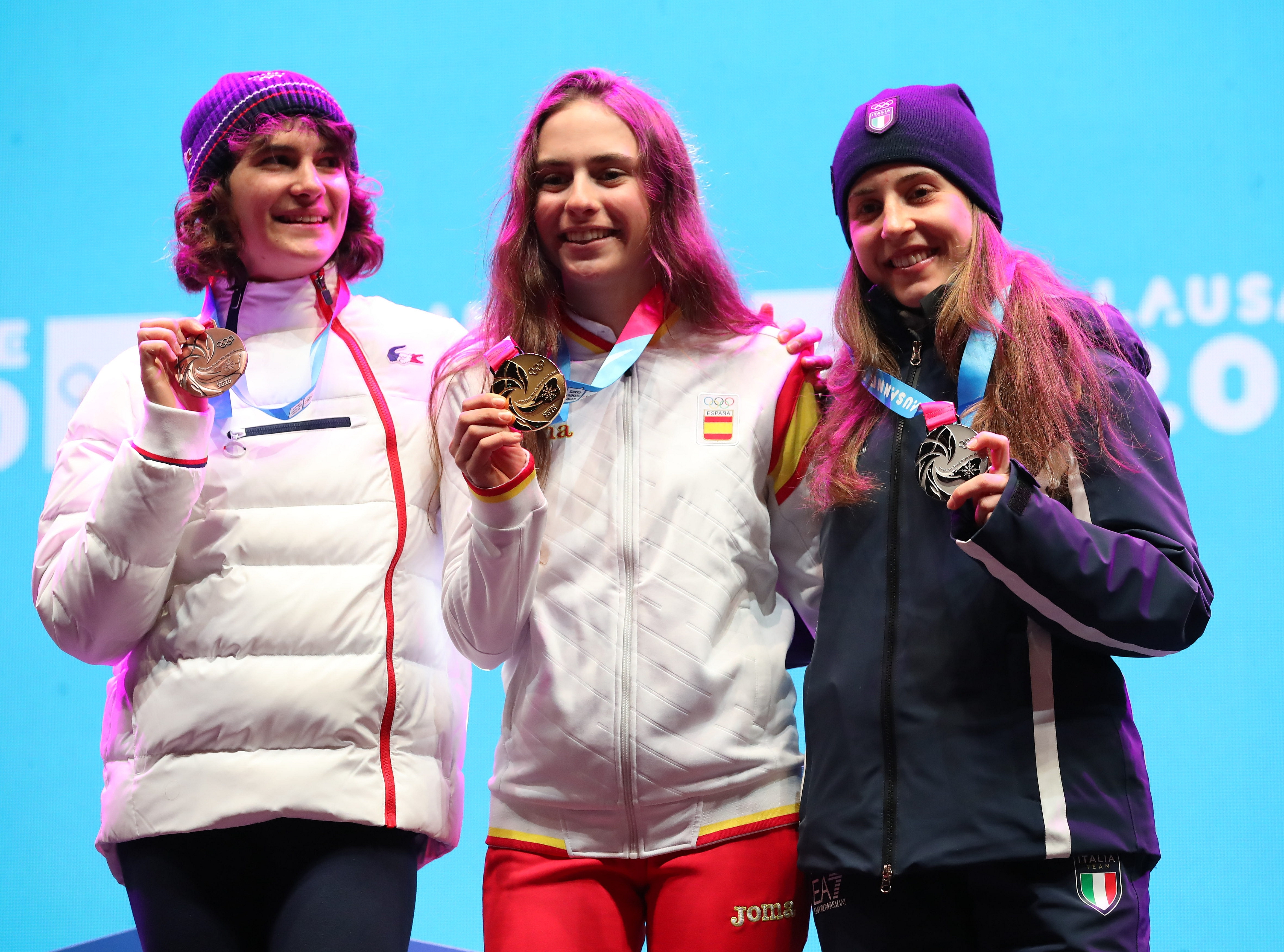 Medal ceremony of Ski Mountaineering – Women's Sprint at the 2020 Winter Youth Olympics in Lausanne on 13 January 2020.